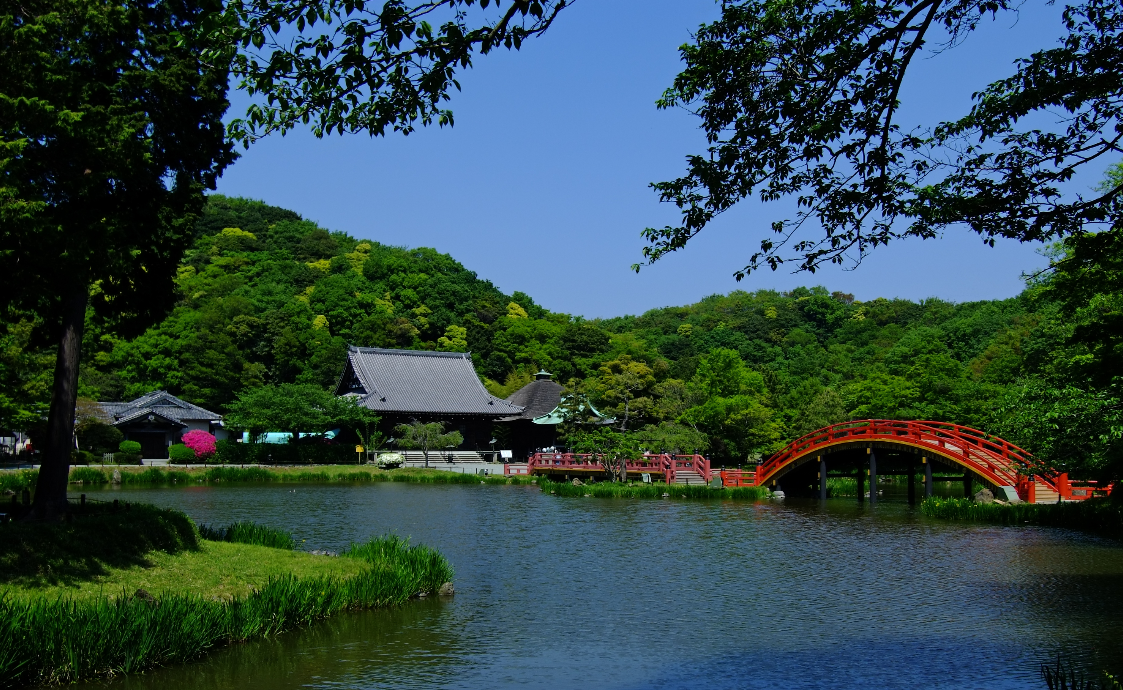 Shomyo-ji, at Kanazawa-ku Yokohama Japan.